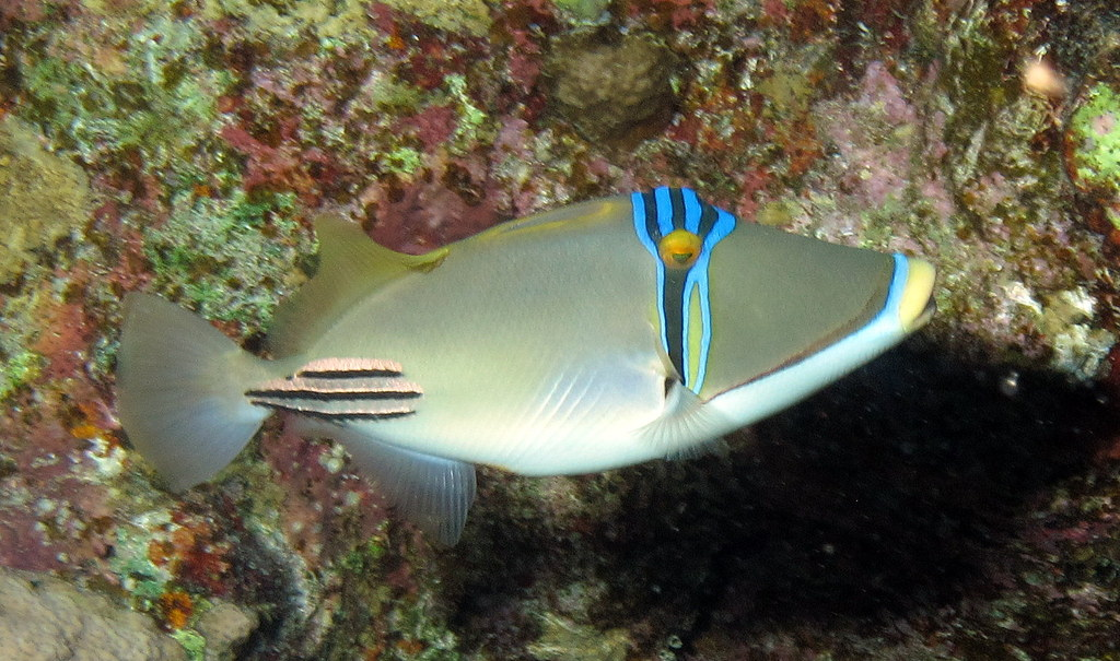 Picassofish (a triggerfish), Rhinecanthus assasi at Abu Dabab Reefs, Red Sea, Egypt #SCUBA